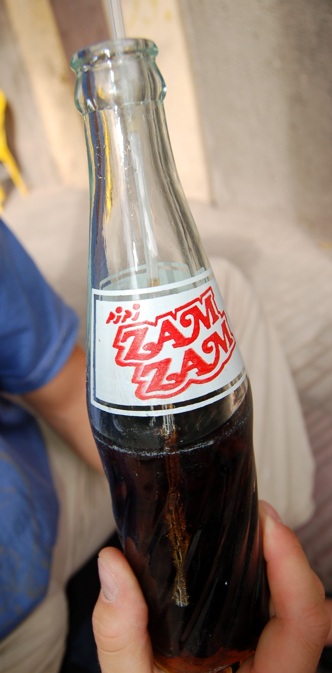 A bottle of Zamzam soft drink